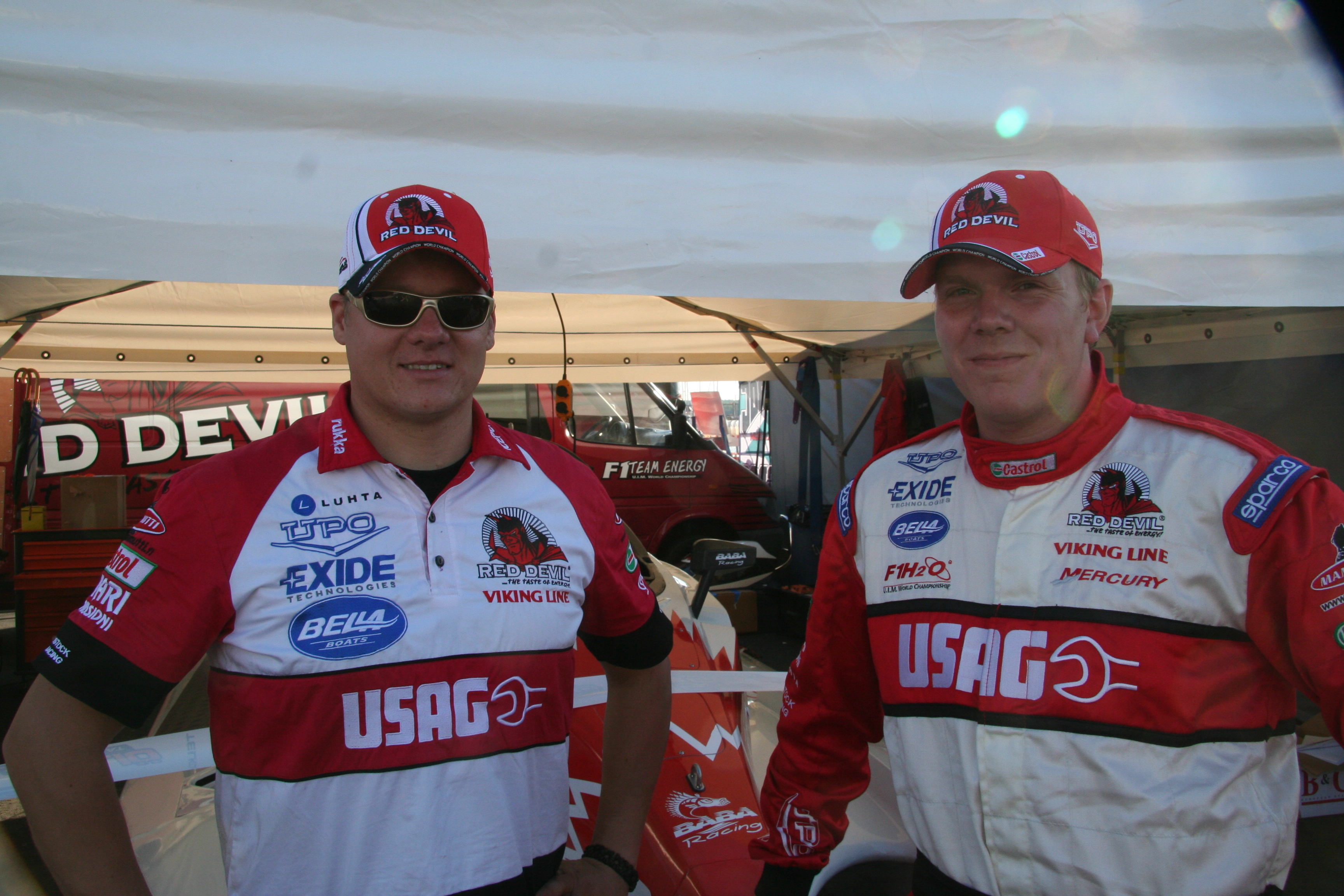 Finnish F1 Powerboat driver Sami Seliö (left) and F2000 Powerboat driver Michael Nylund in Ekenäs, Finland summer 2008.